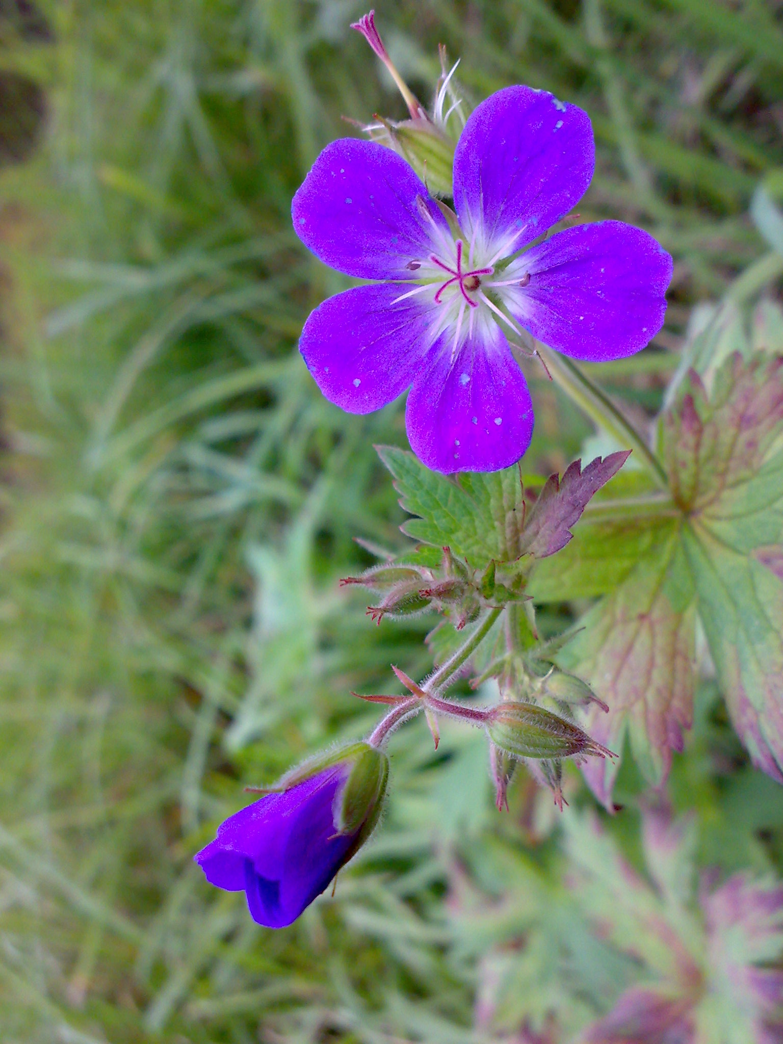 Geranium sylvaticum at Bogstad, Oslo (Norway)